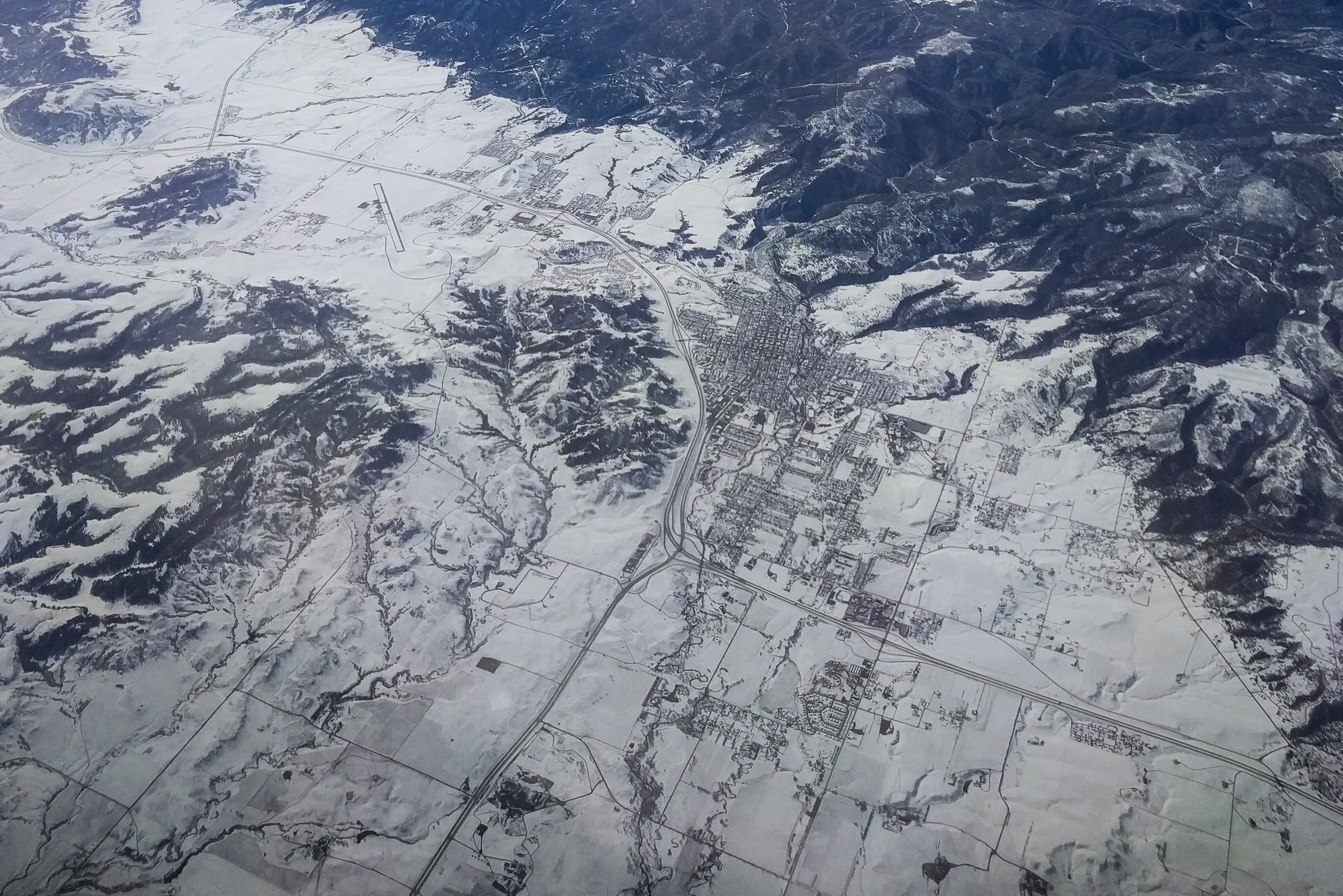 Spearfish, South Dakota, as seen from 35,000 feet. I-90 from bottom right to top left, US Route 85 from the bottom left, Clyde Ice Field airport on the top left.